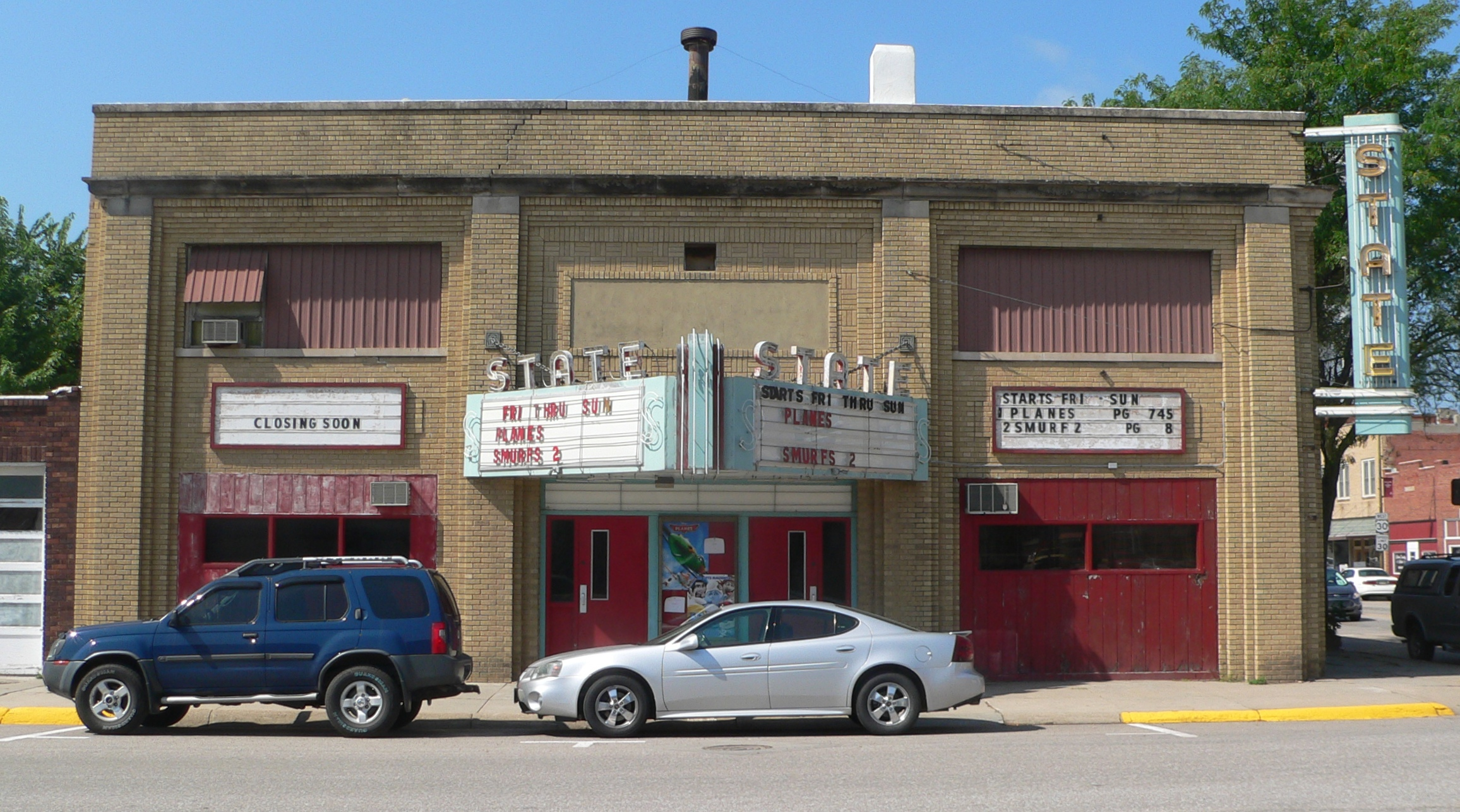 State Theater in Centra City, Nebraska; seen from the east.